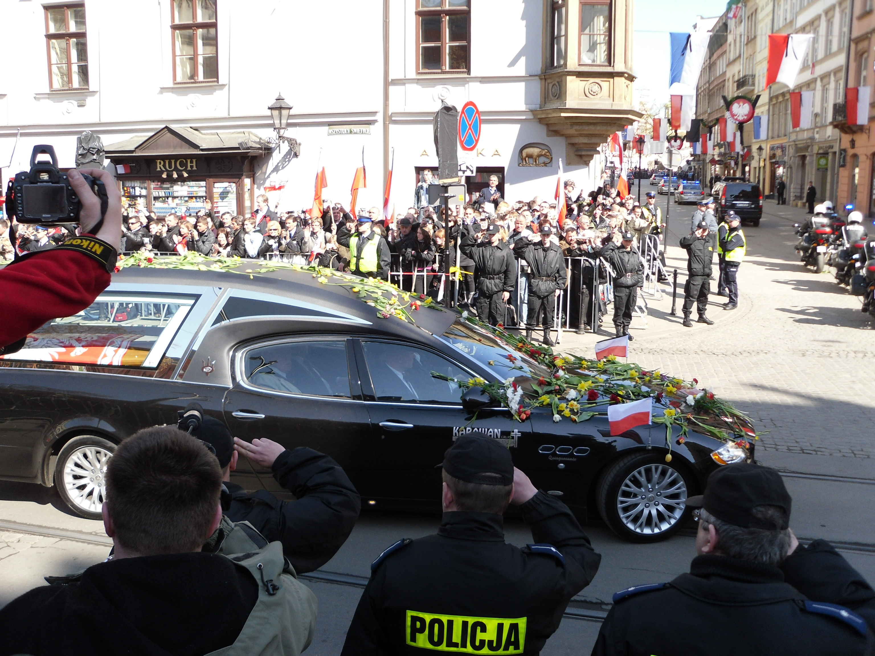 Hearse with the body of President Lech Kaczynski on his way to the ceremony in St. Mary's Basilica in Krakow.